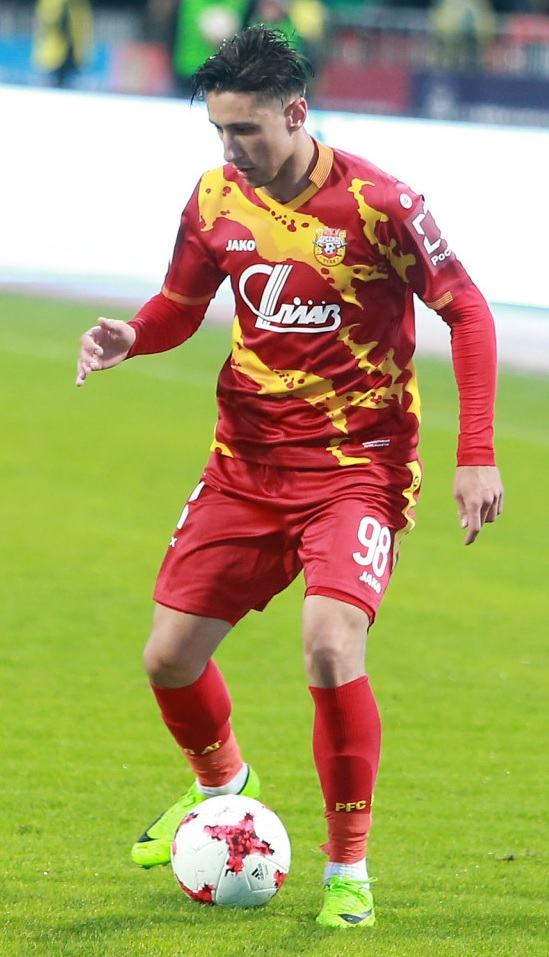 Mihail Aleksandrov with FC Arsenal Tula in a game against FC Lokomotiv Moscow.